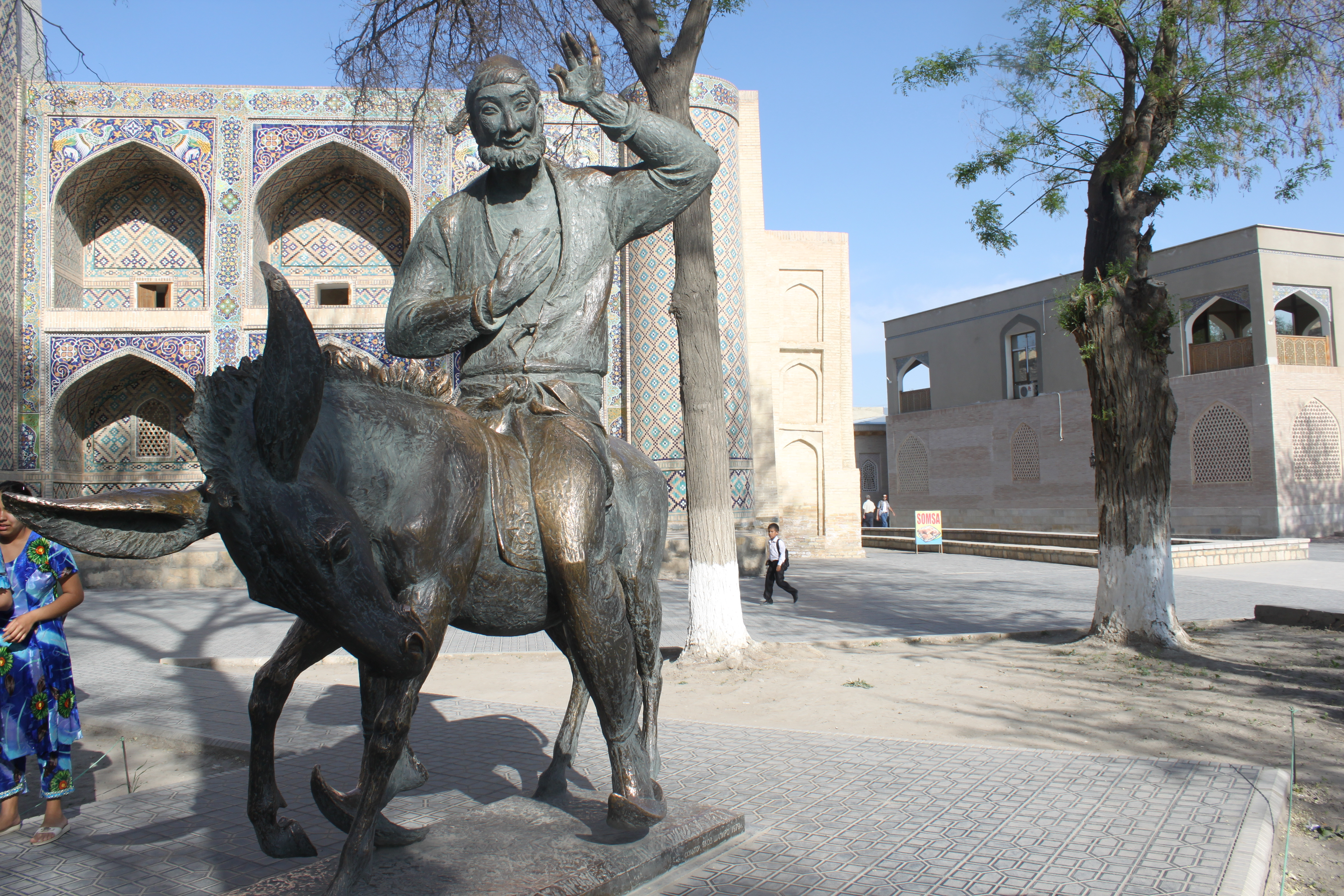 Statue of Nasreddīn Hodja in Bukhara. In the background: Nadir Divan-Beghi Medersa (part of Lab-i Hauz complex).